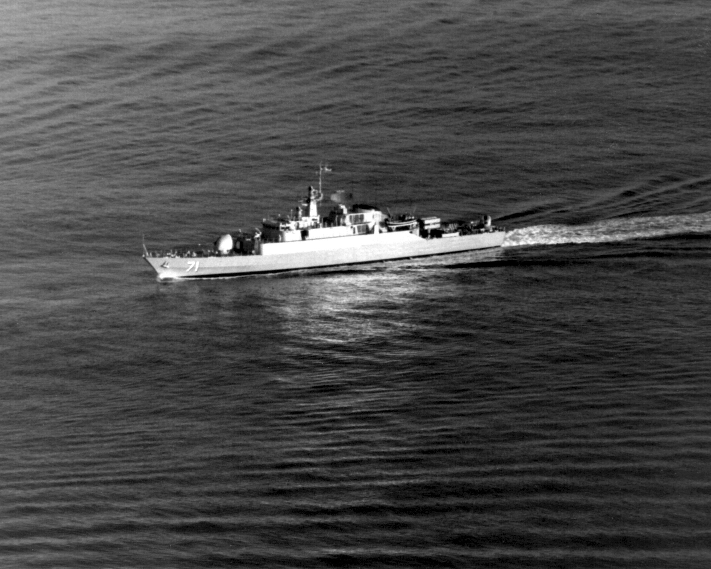 A port view of the Iranian destroyer escort IIS SAAM (DE-71), redesignated the frigate IS ALVAND (F-71).